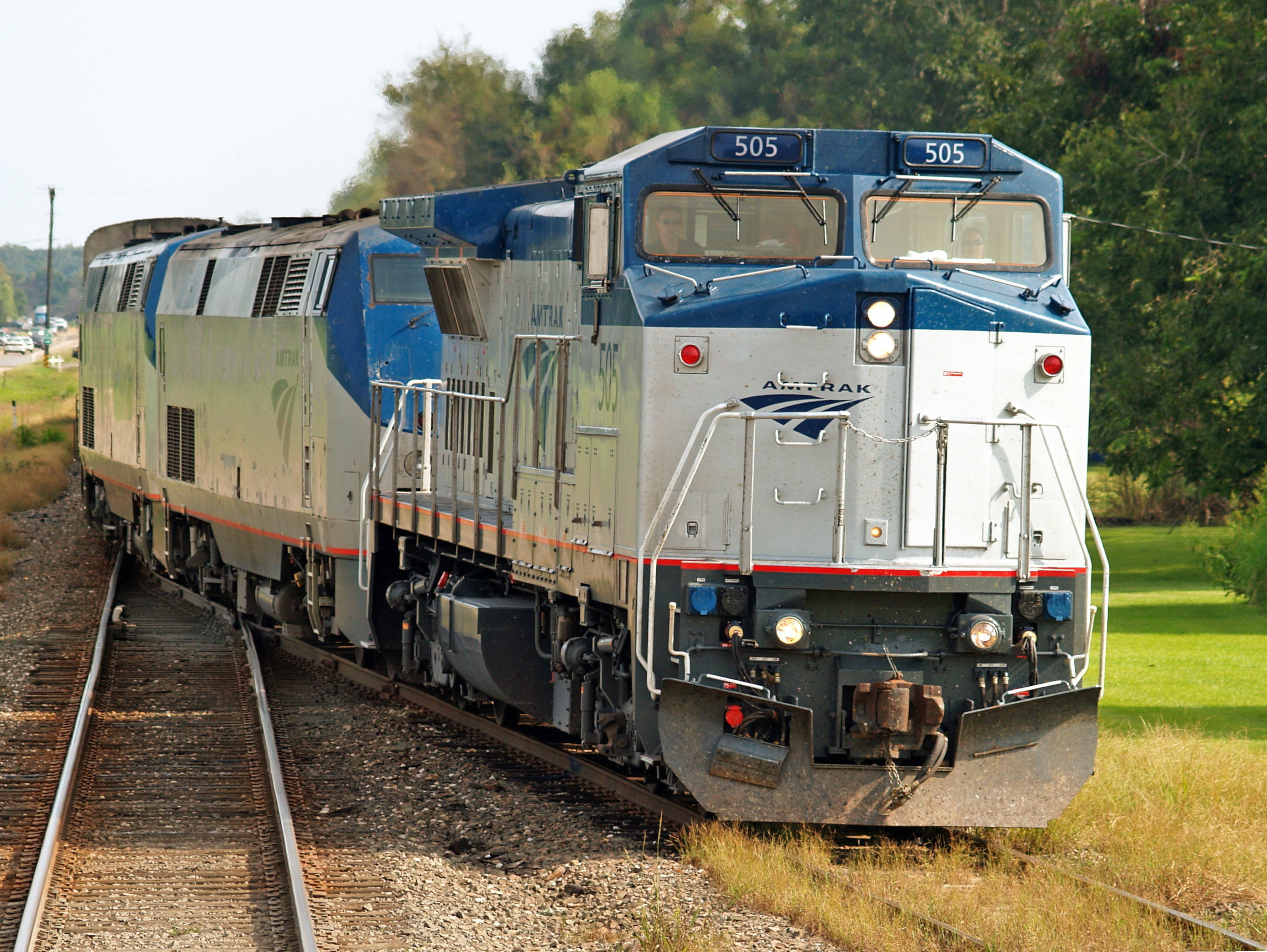 A photo of a GE Dash 8-32BWH leading the Sunset Limited through Cade, Louisiana.